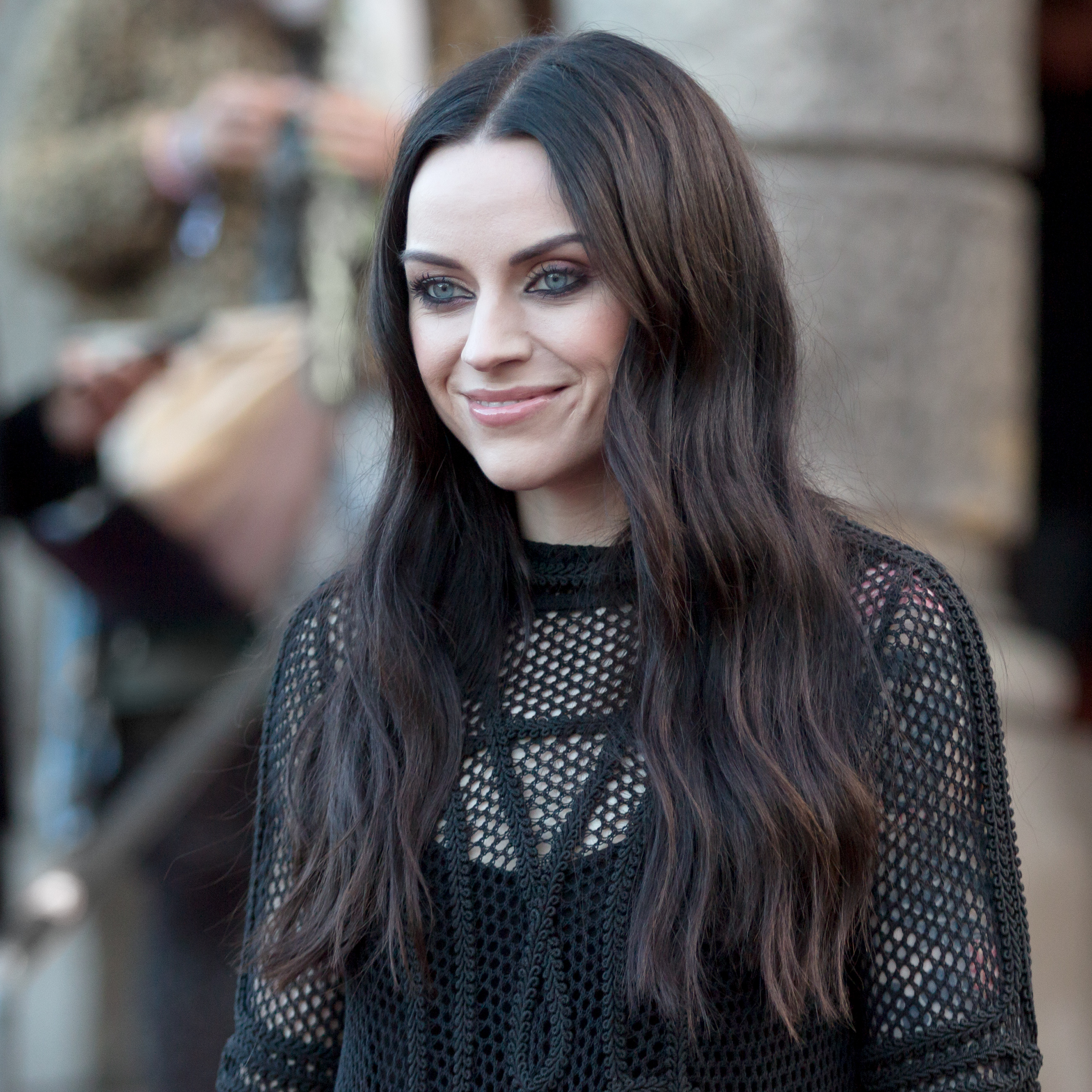 Amy Macdonald at the Amadeus Austrian Music Award 2017 at Volkstheater in Vienna.